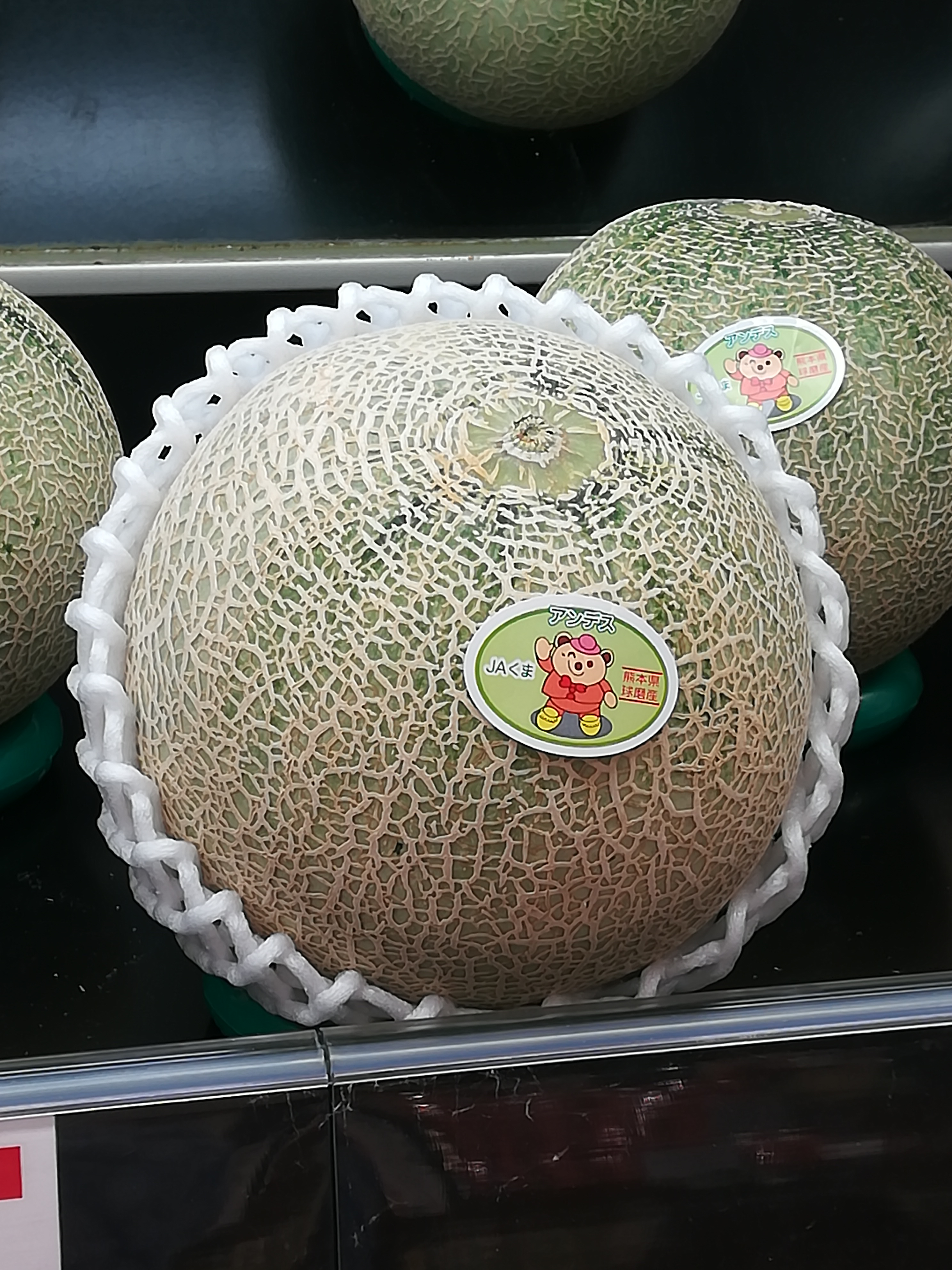 Andes melon from Kumamoto.